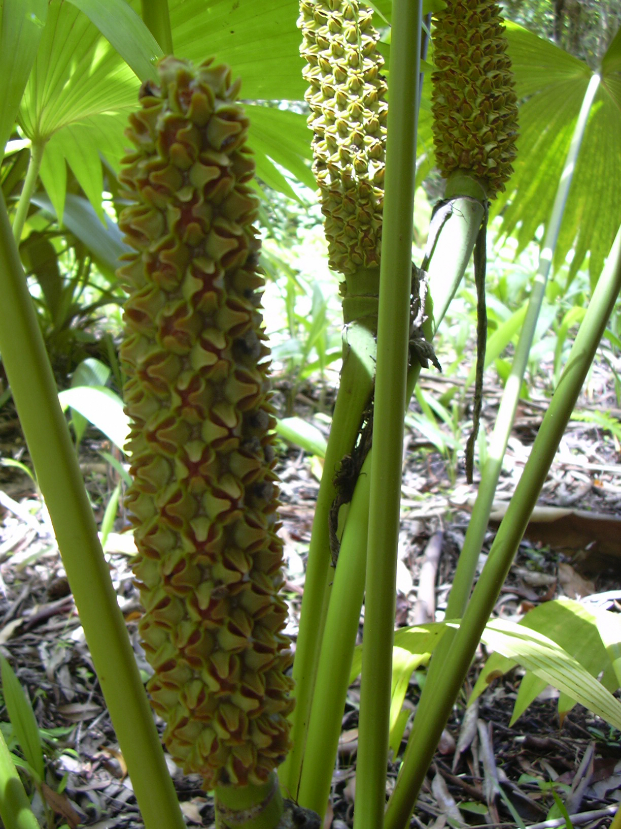 Carludovica palmata (fruit). Location: Maui, Keanae Arboretum